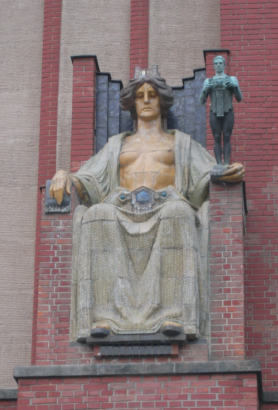 Hradec Králové - Museum of Eastern Bohemia